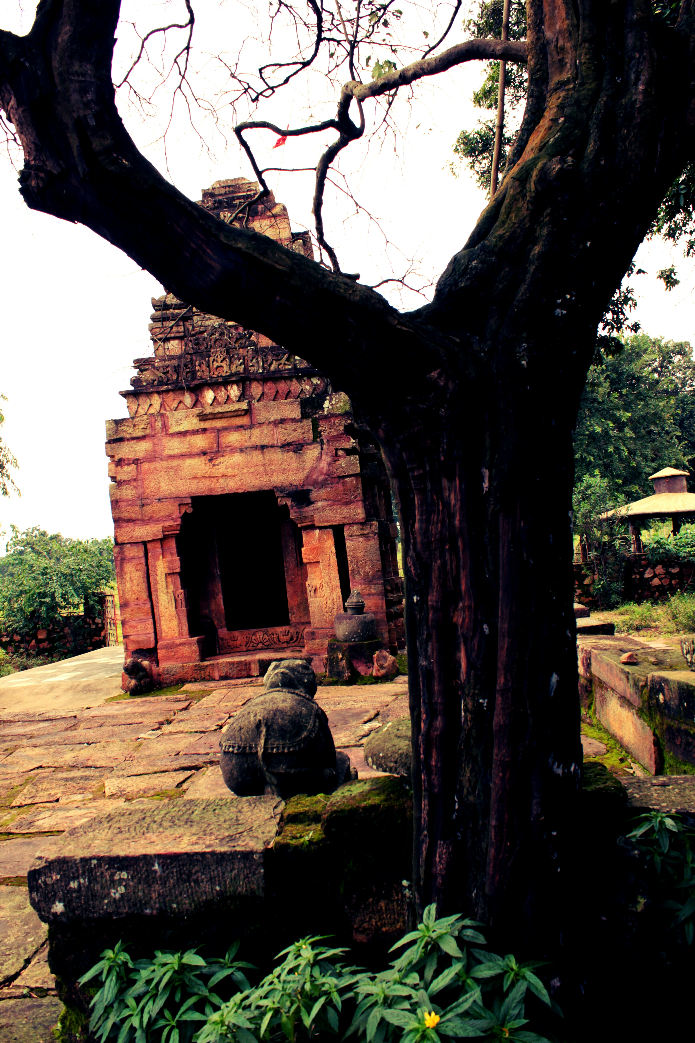 11TH CENTURY TEMPLE DEDICATED TO SHIVA. LOCATED NEAR TIRATHGARH.SLOWLY INCLINING.